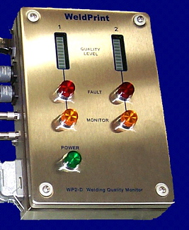 My photograph of the steel box made for the industrial analysis of weld quality